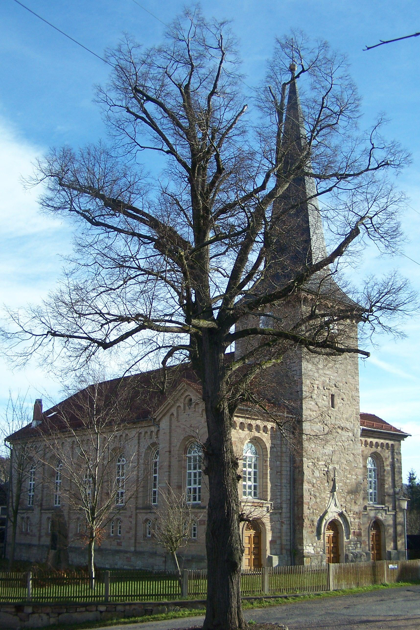 The church St. Peter und Paul in Schwarzhausen village.